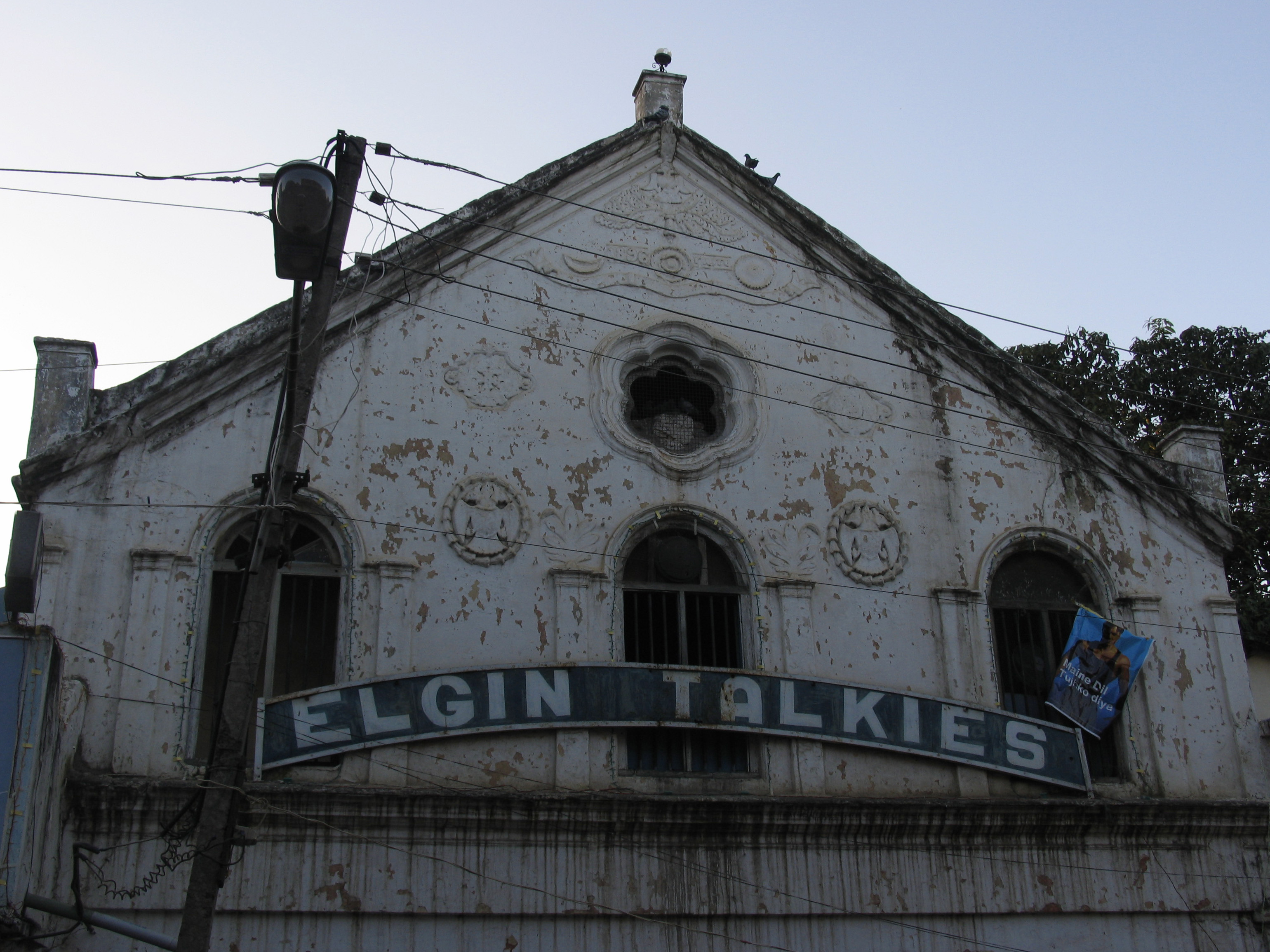 Facade of the Elgin Talkies cinema hall building (built in 1896) on Shivaji Street in Bangalore (India)